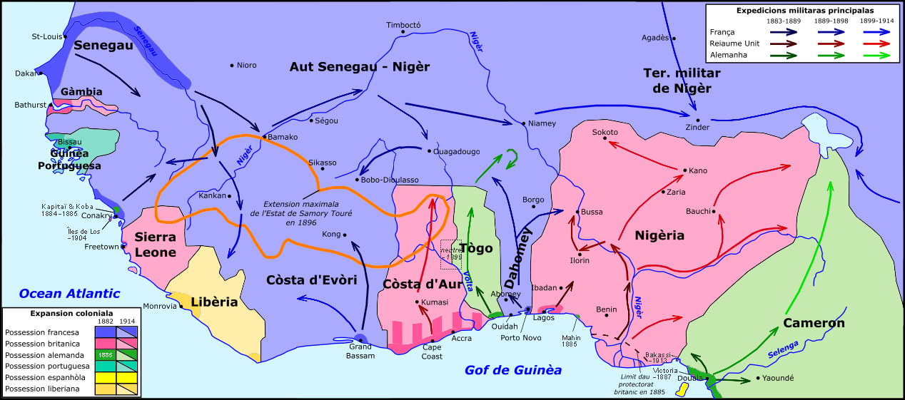 Colonisation of West Africa, 1882-1914